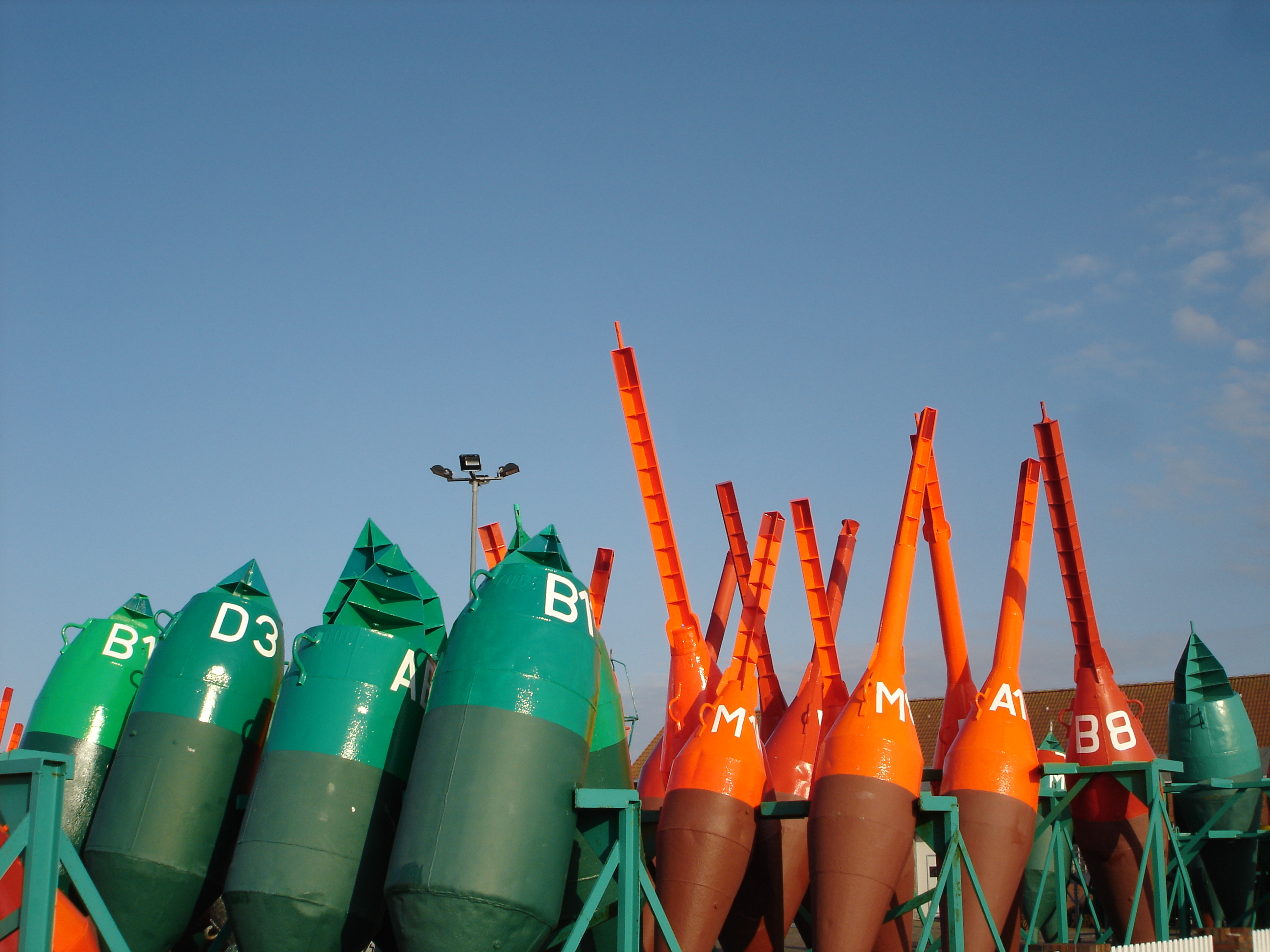 Buoys in the port of Norderney